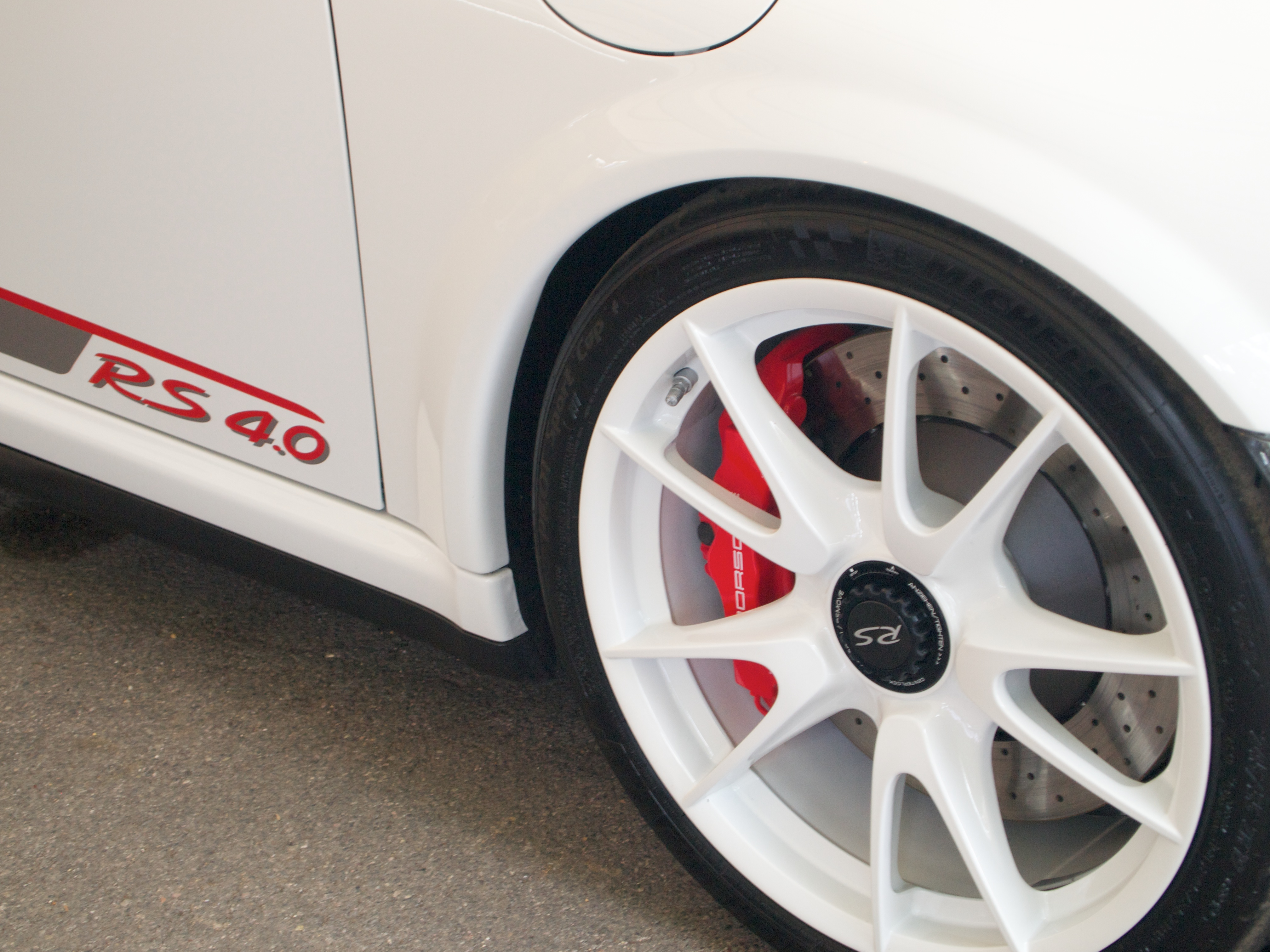 White Porsche 911 GT3 RS 4.0 (Type 997, MY 2011/2012) at the 2011 Goodwood Festival of Speed.